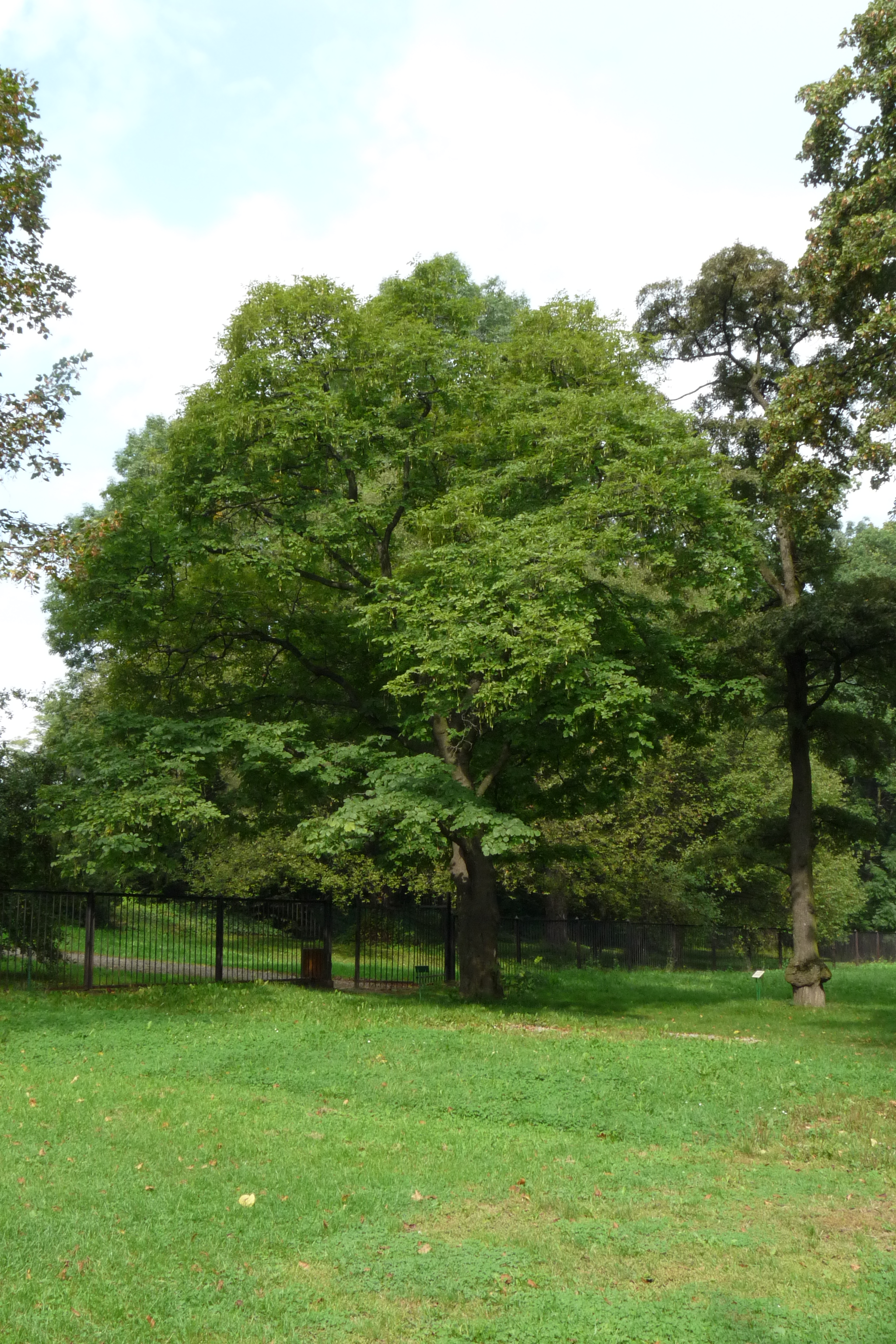 Palace park in Dukla, American Yellowwood